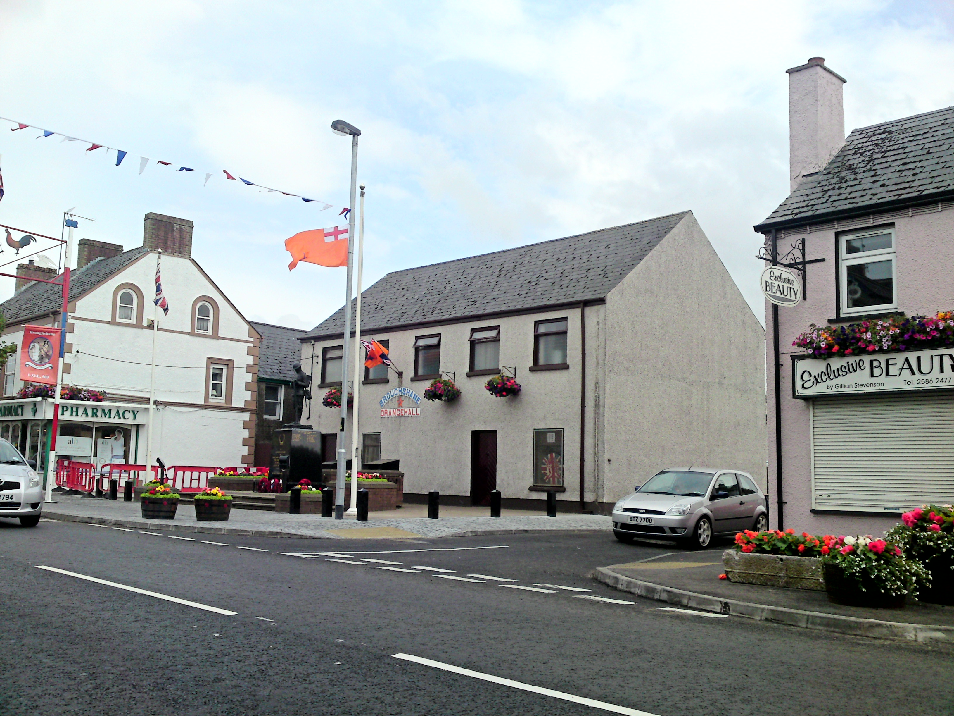 Broughshane Orange Hall.The statue of the soldier in front of the hall is the villages war memorial.